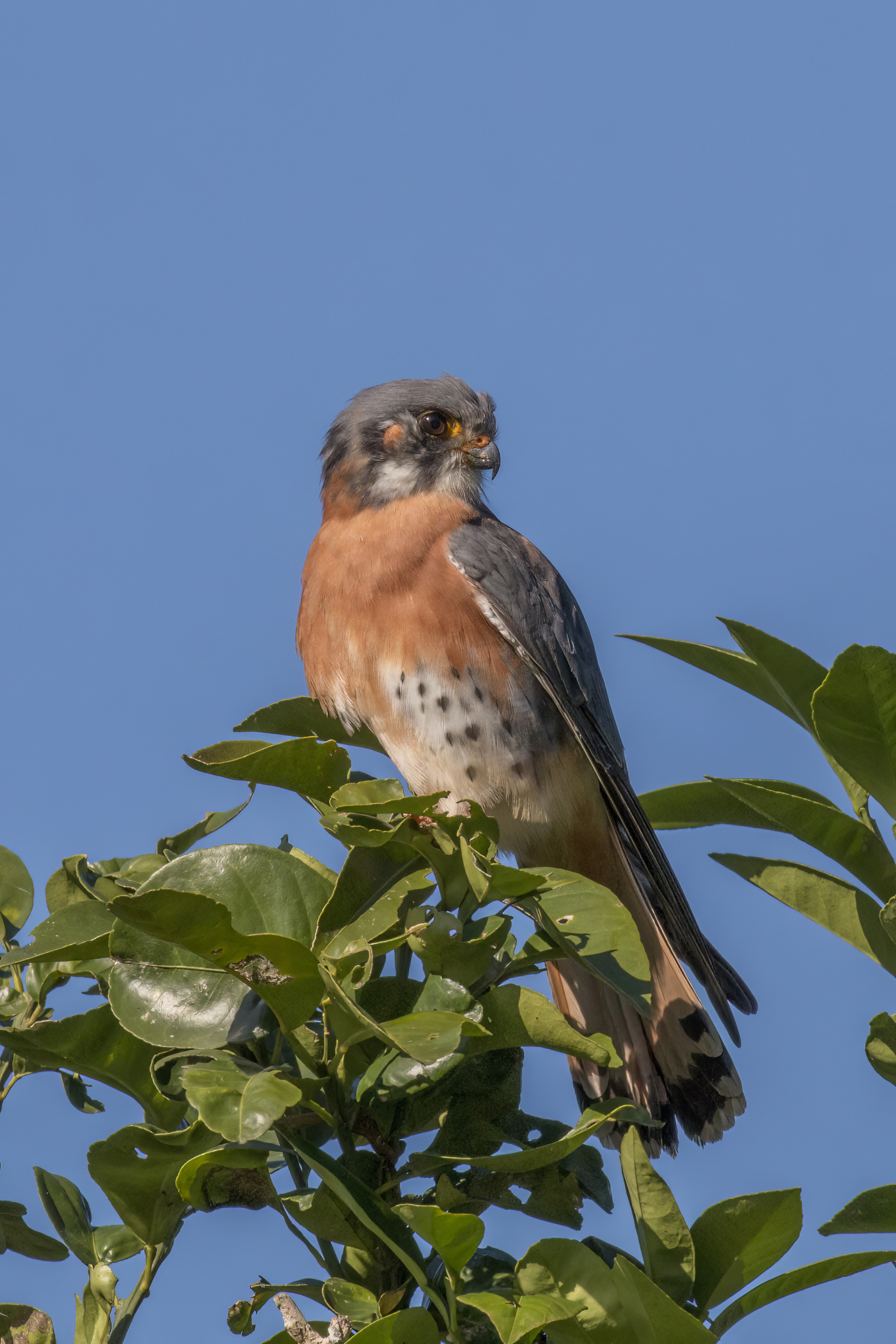 American kestrel (Falco sparverius sparveroides) male red morph, Cuba